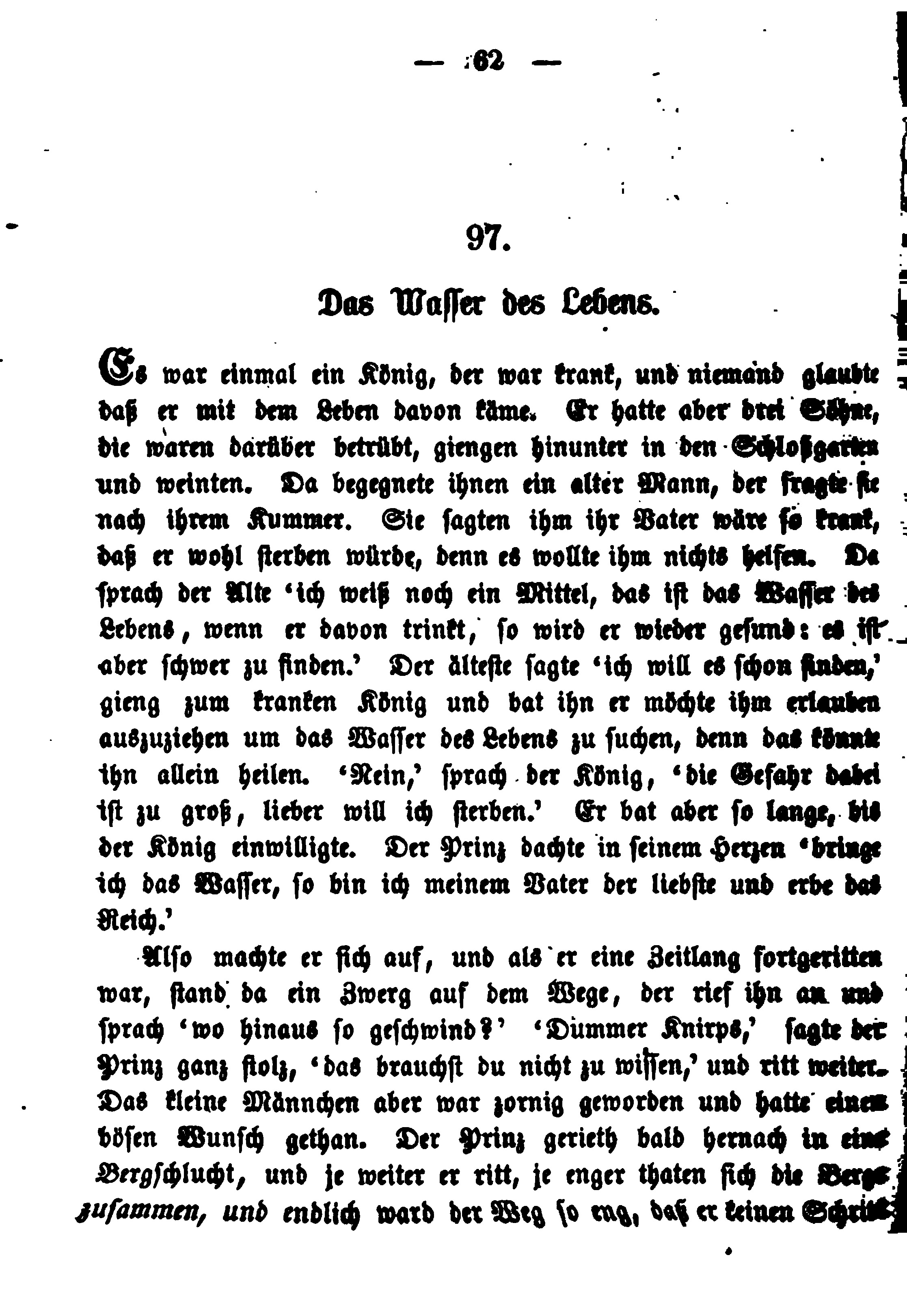 This is a scan of the historical document